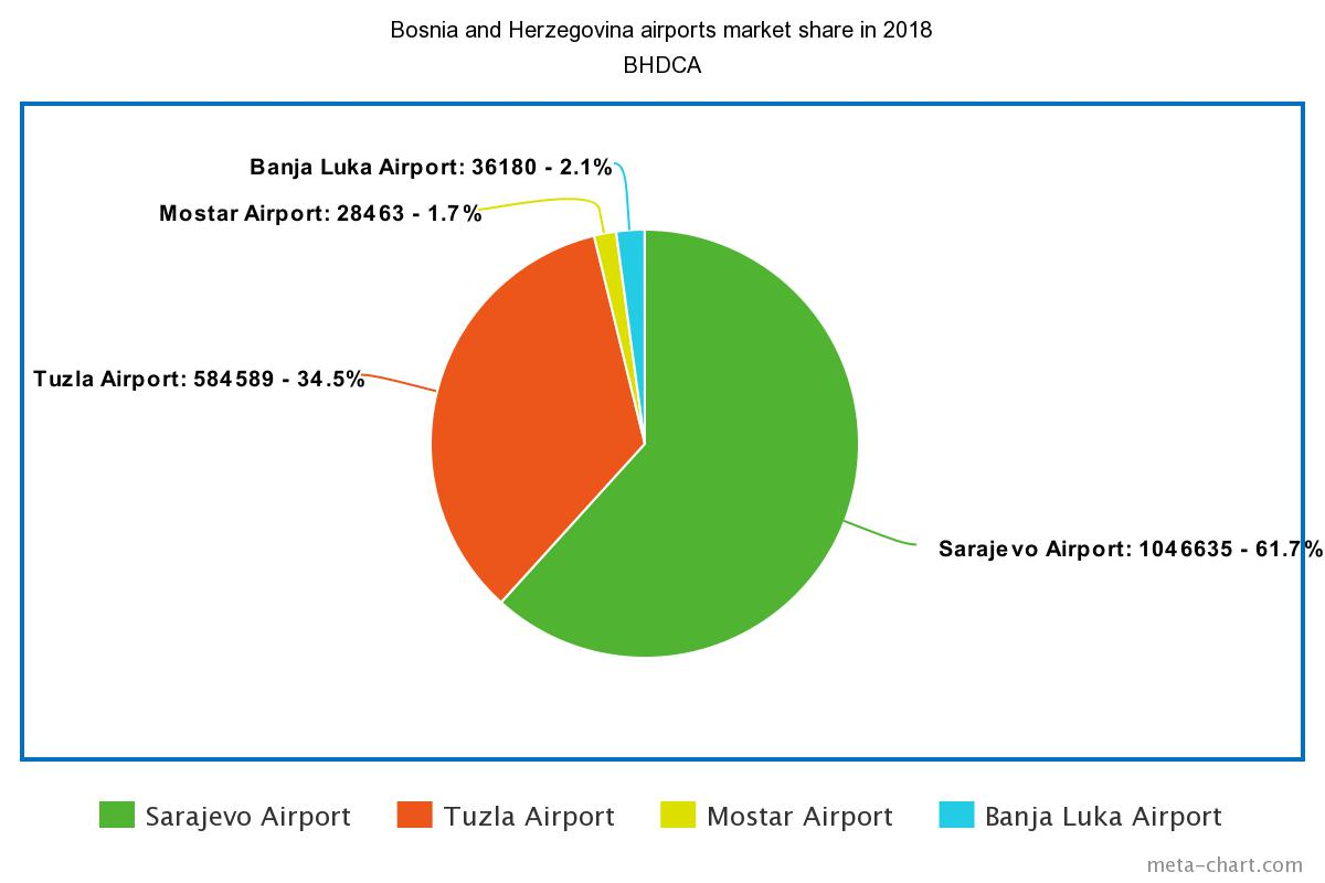 Bosnian airports market share in 2018